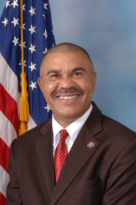 William Lacy Clay Official Photo, 2009.